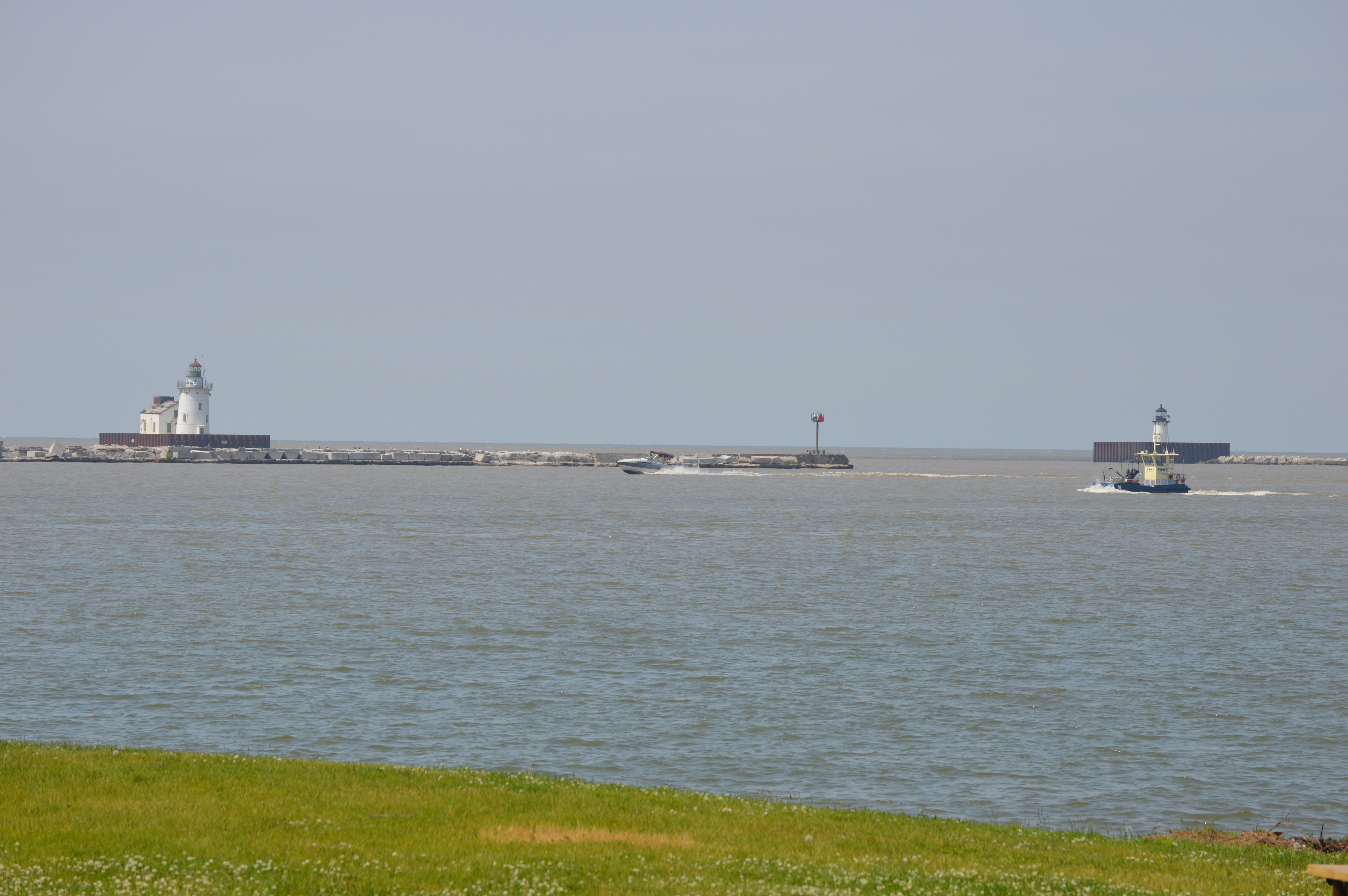 Boats in North Coast Harbor, seen from Wendy Park on Whiskey Island in Cleveland, Ohio, United States. Both harbor entrance lights are visible in the distance, with the harbor entrance between them.